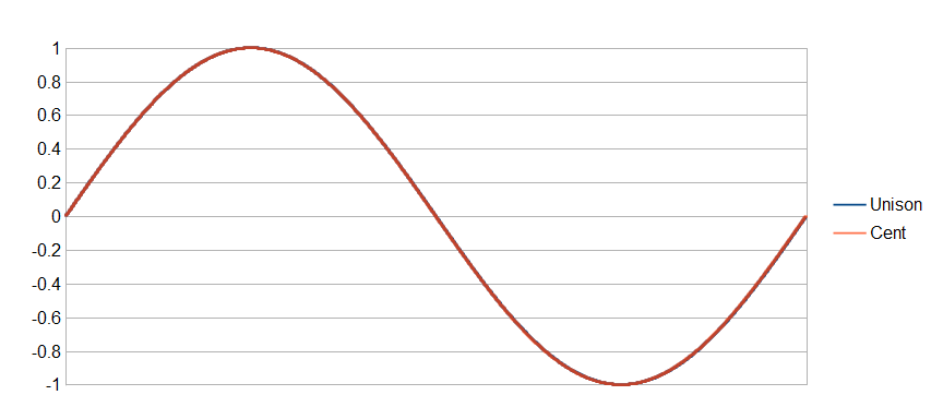 Waveform of unison and a cent, nearly indistinguishable.